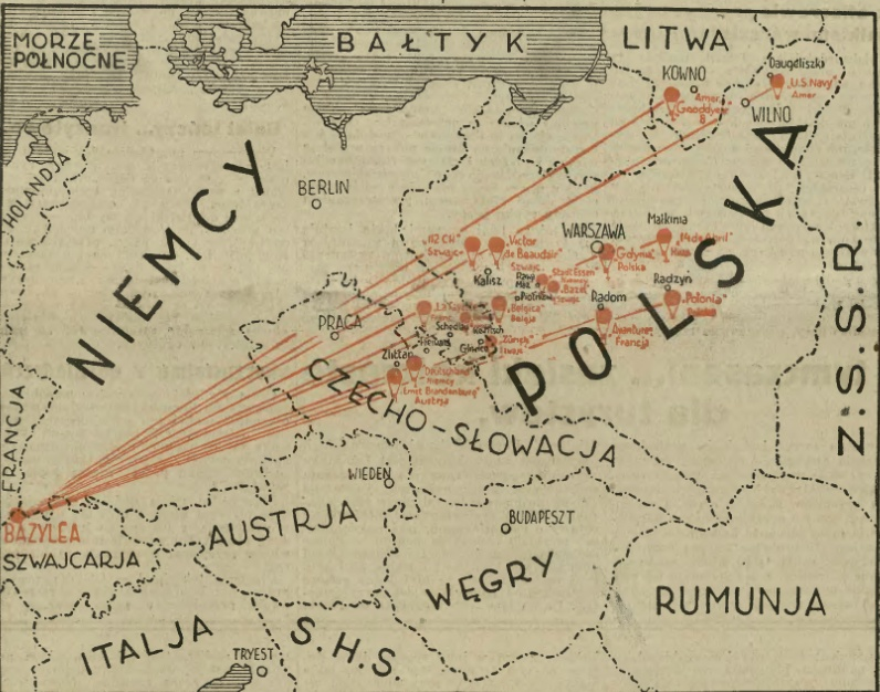 Map depicts the trace of baloon flight during Gordon Bennet Cup 1932.